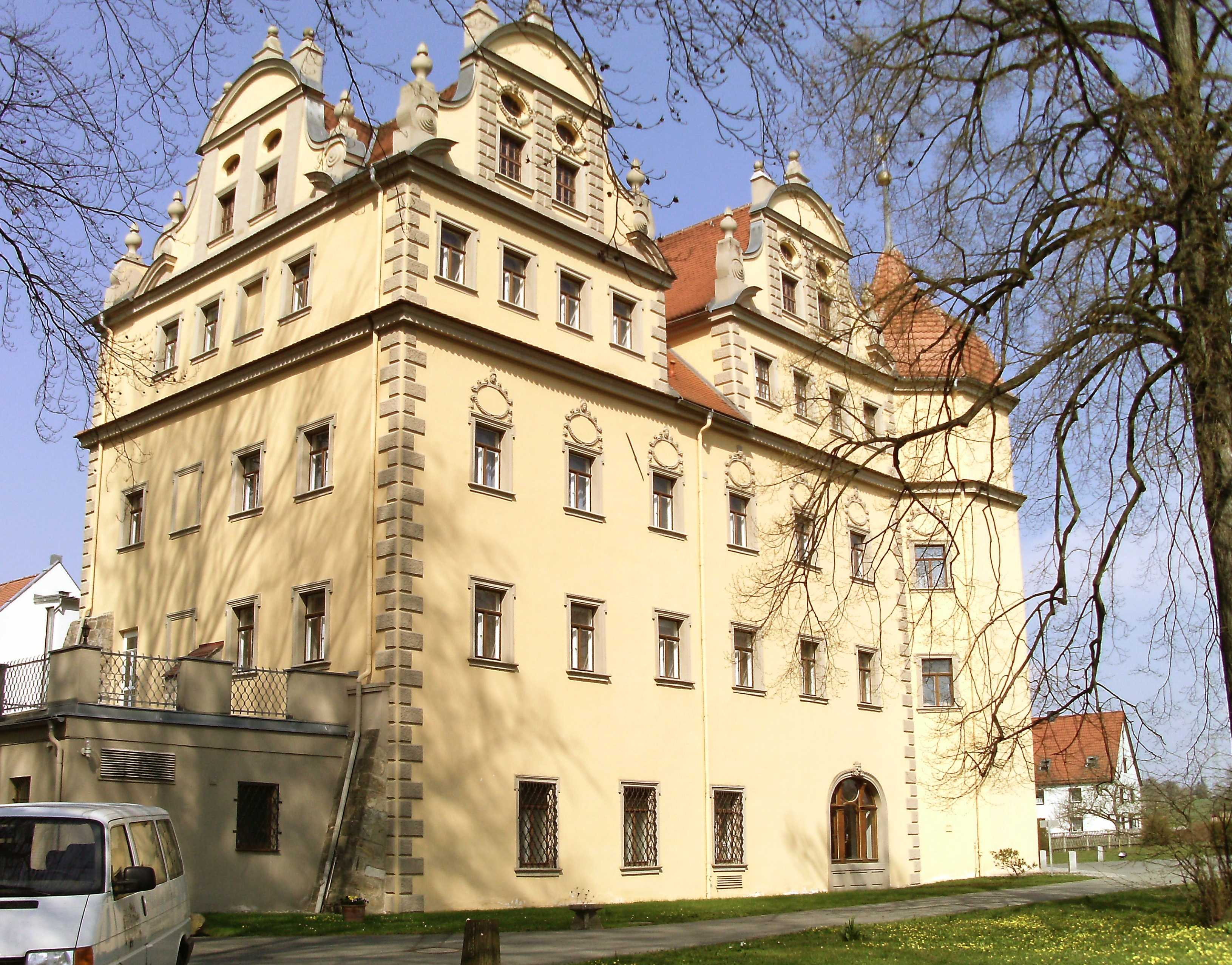 Althörnitz Castle (Bertsdorf-Hörnitz, Görlitz district, Saxony)